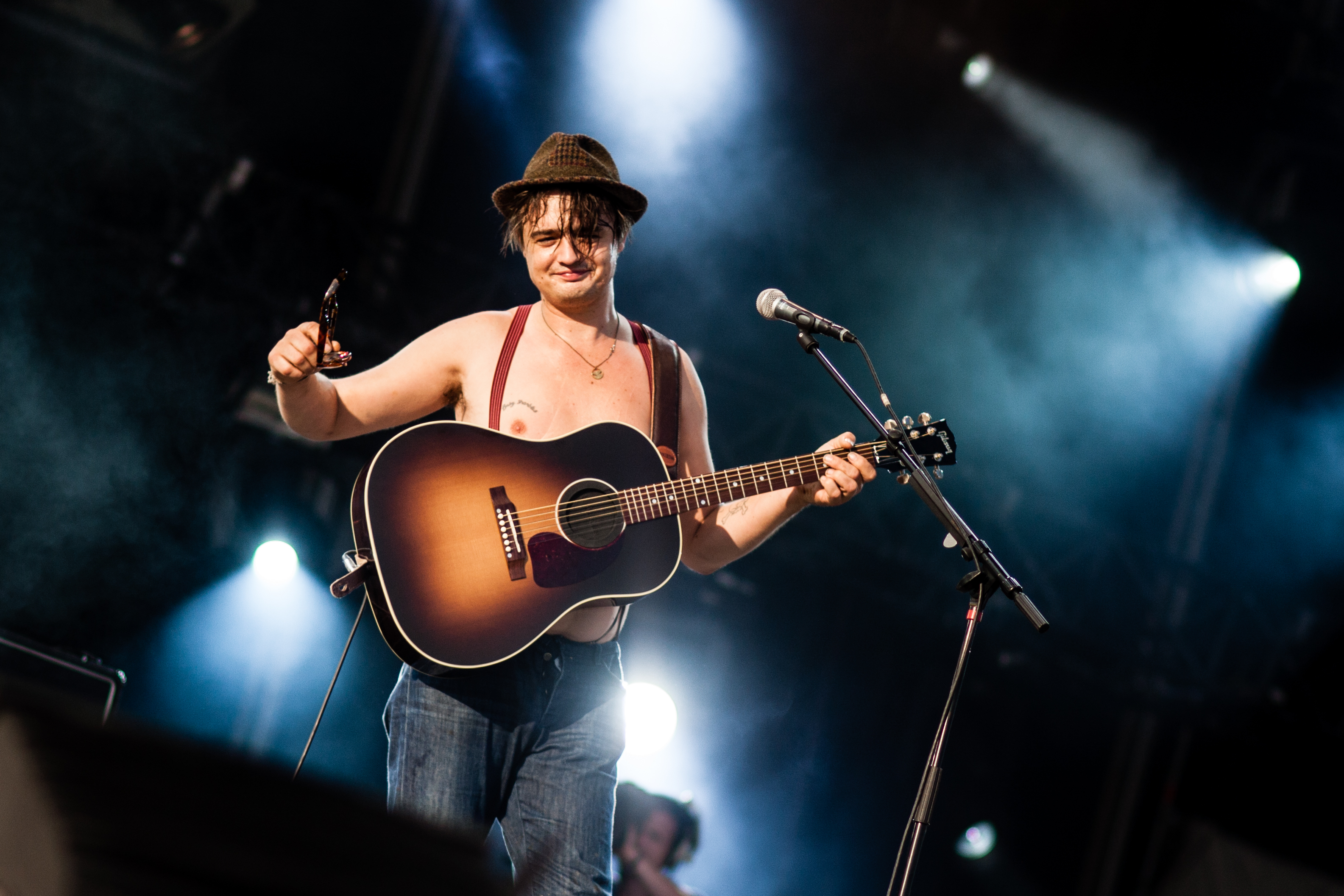 Follow me on facebook Twitter : @didyPhotography All the photographies I've made are now under CC0 (Creative Commons Zero) CC0 - learn more To the extent possible under law, Eddy BERTHIER has waived all copyright and related or neighboring rights to Pete Doherty @ Fête de l'Humanité 2012. This work is published from: France.